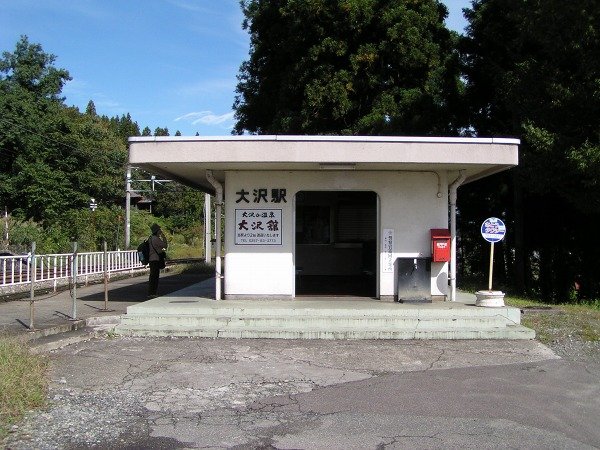 Ōsawa Station, Minaiuonuma, Niigata, Japan